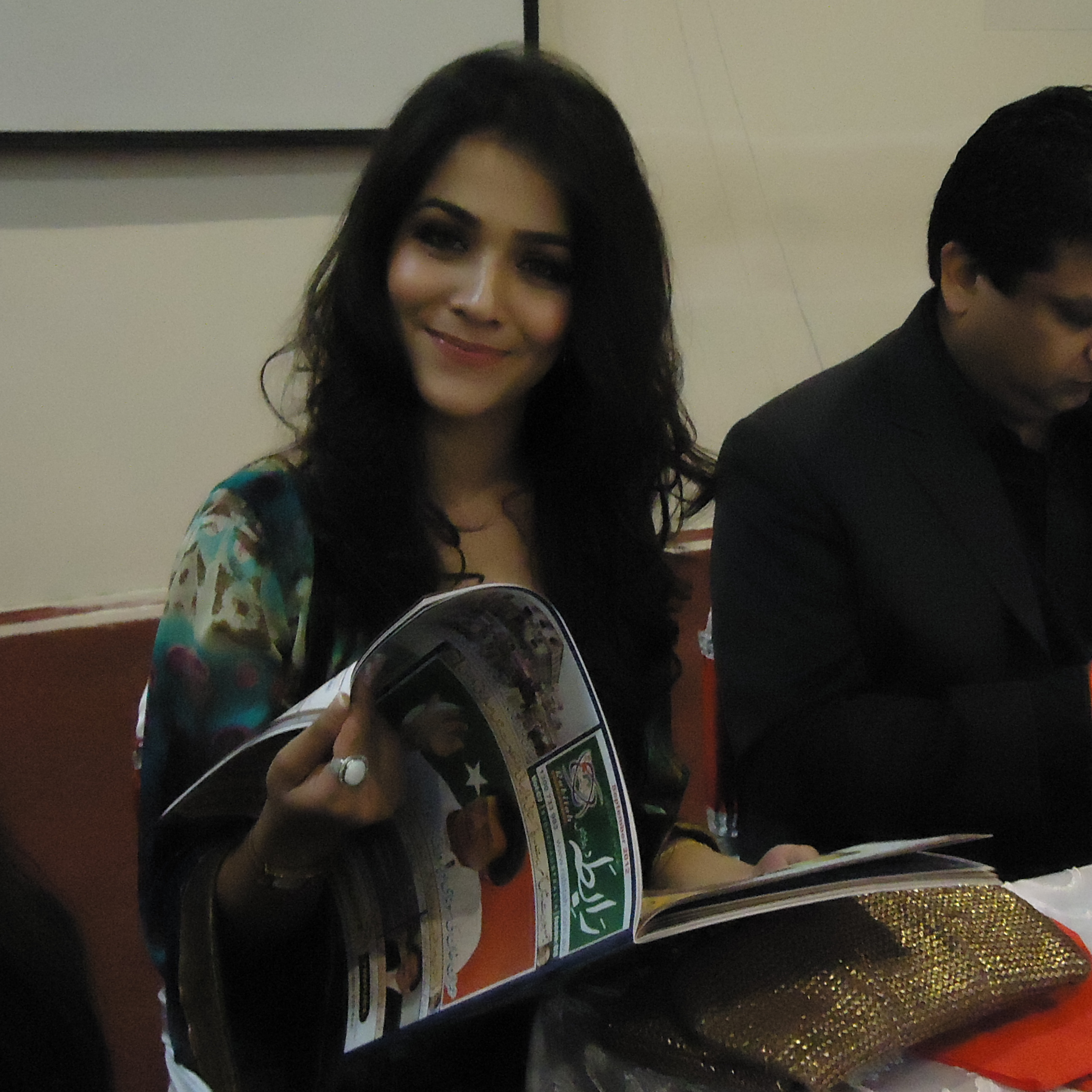 Humaima Malick at a media reception in Sydney, Australia